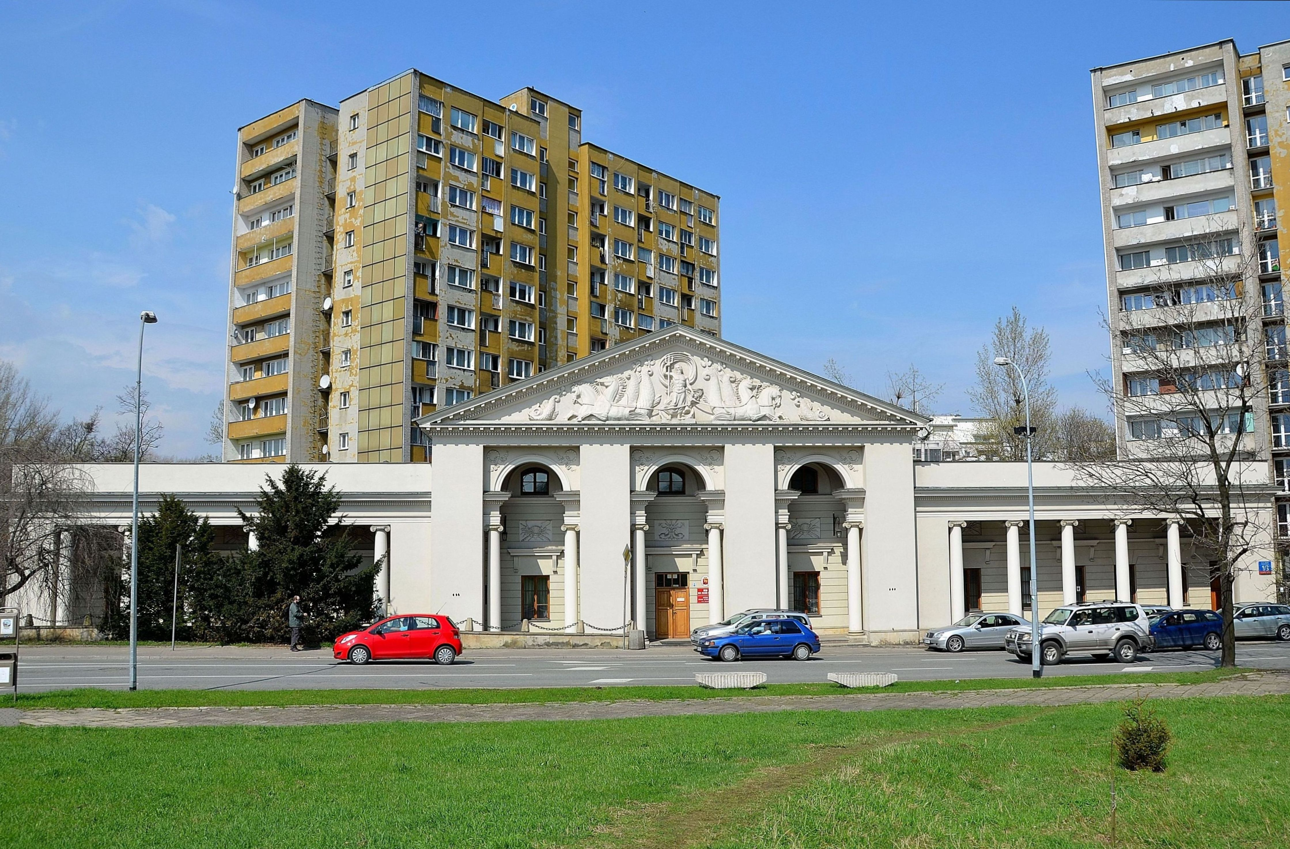 Water Chamber at 1/3 Kłopotowskiego Street in Warsaw